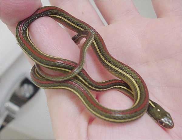 Photographer: User:Dawson Commons:Category:Thamnopsis proximus